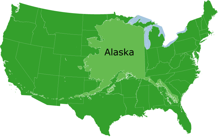 Alaska superimposed over the contiguous United States.